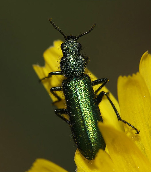 Cropped from Image:P3056807.jpg It is not the Spanish fly (Lytta vesicatoria) but Psilothrix viridicaeruleus (Melyridae)